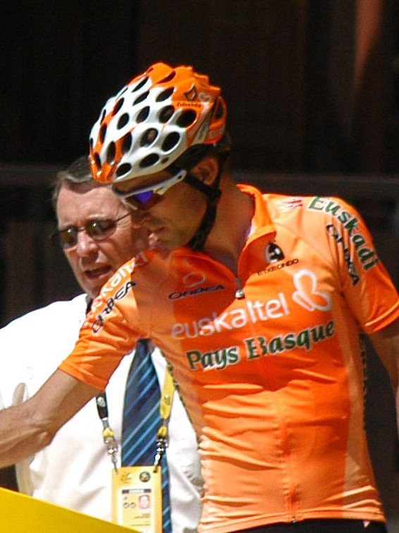 Haimar Zubeldia at the start of stage 8 in Le Grand Bornand, Tour de France 2007.